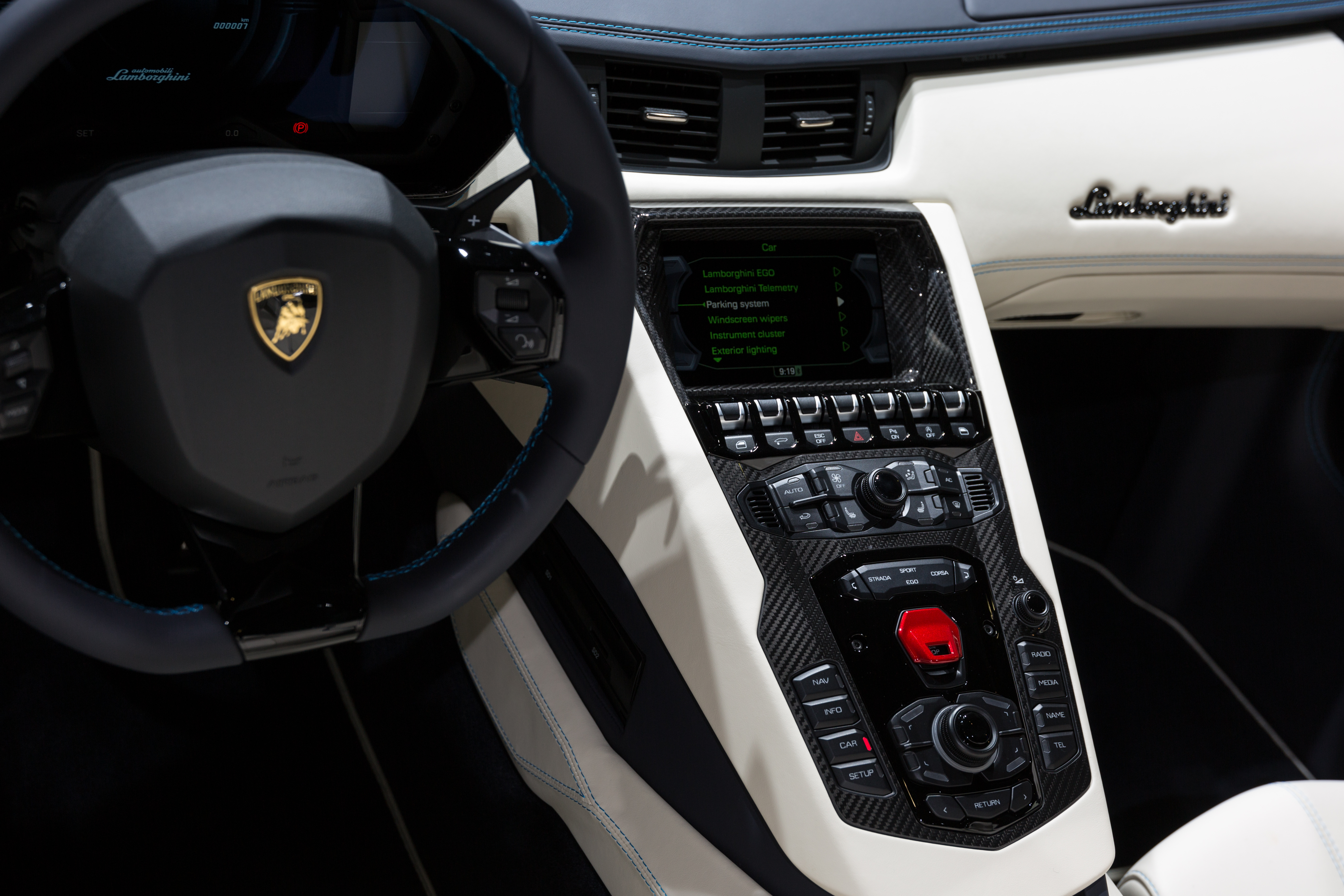 Lamborghini Aventador S Roadster, IAA 2017